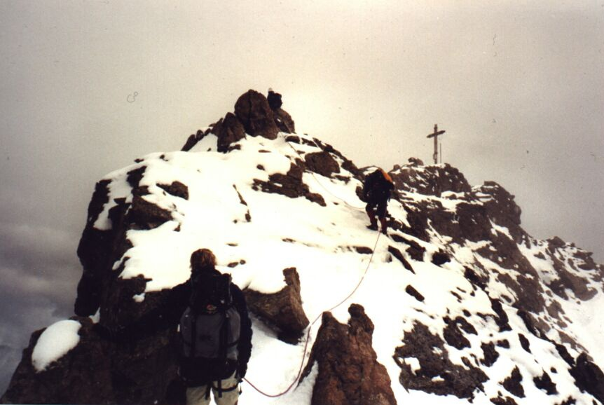 Dreiländerspitze - Picture taken with a Canon Ixus II on oct 5, 2000. Quality is not very good because the image was scanned from a photograph.